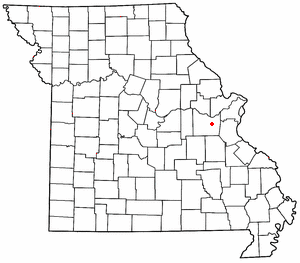 Modified from a map on Wikipedia.